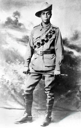 Portrait of an Aboriginal serviceman, 234 Private (Pte) Walter Christopher (Chris) George Saunders, 10th Machine Gun Battalion. A native of Warrnambool, Vic, Pte Saunders worked as a groom prior to enlisting on 29 August 1916. He embarked for service overseas aboard HMAT Ascanius (A11) from Melbourne on 27 May 1916, and returned to Australia in June 1919. Pte Saunders is the father of 337678 Lieutenant Reginald (Reg) Walter Saunders, 2/7th Battalion, who in the Second World War was the first Aboriginal serviceman to be commissioned in the Australian Army.